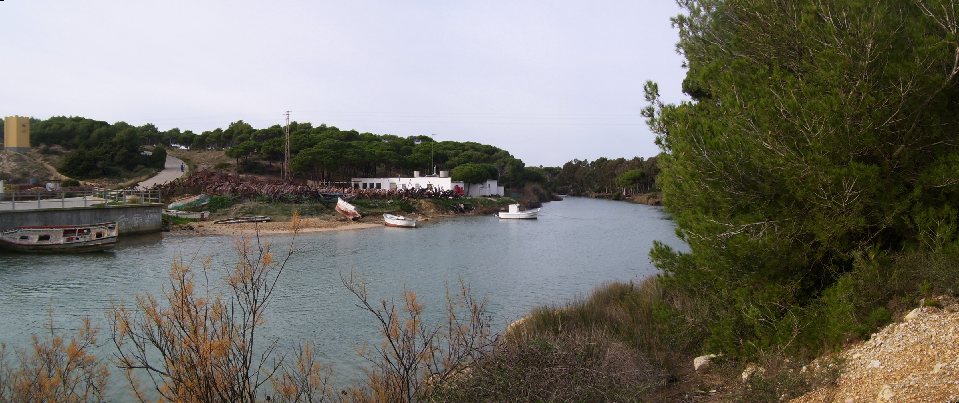 River Roche's mouth in Conil de la Frontera (Cádiz, España).